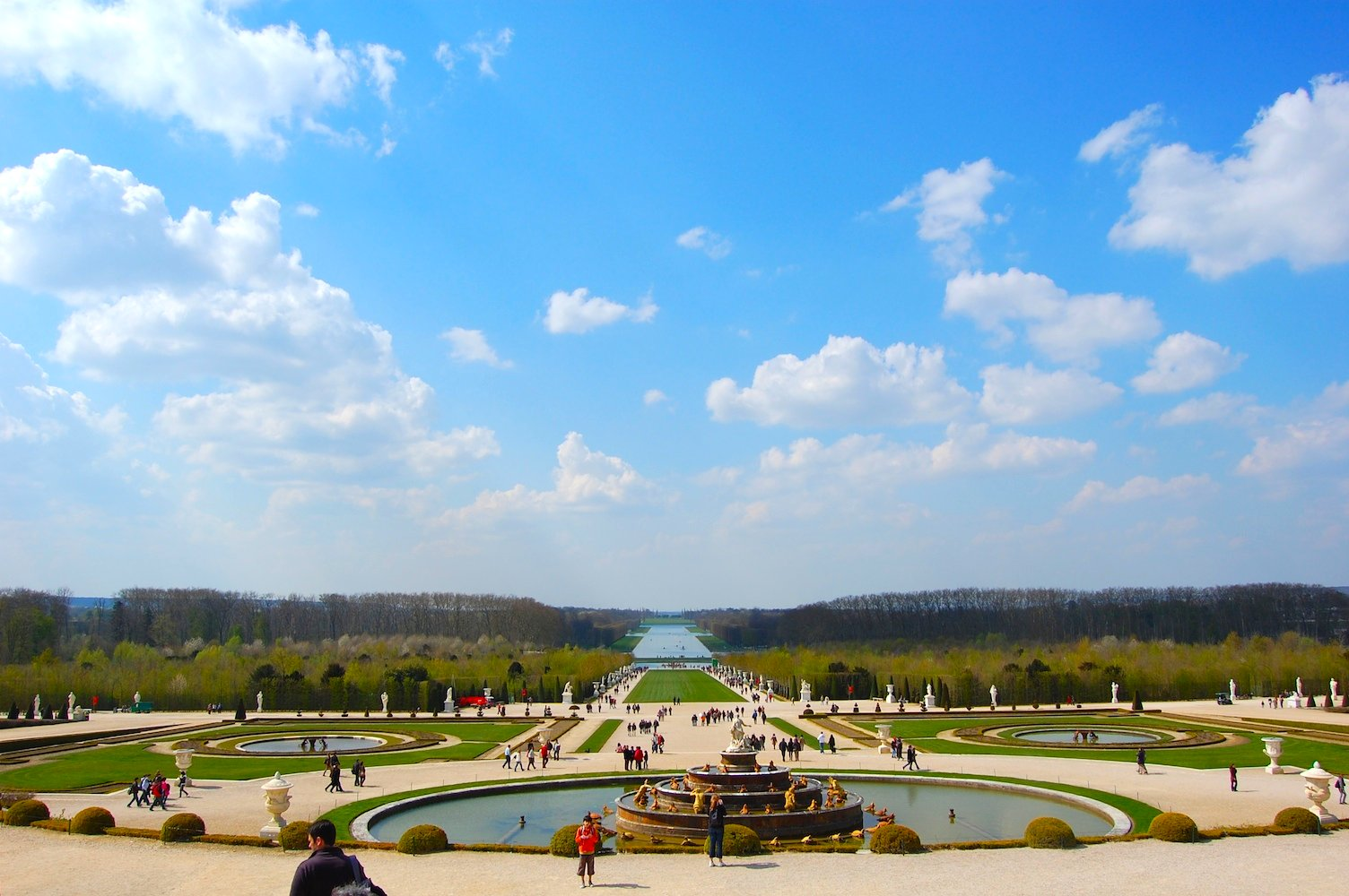 Park of Versailles main view